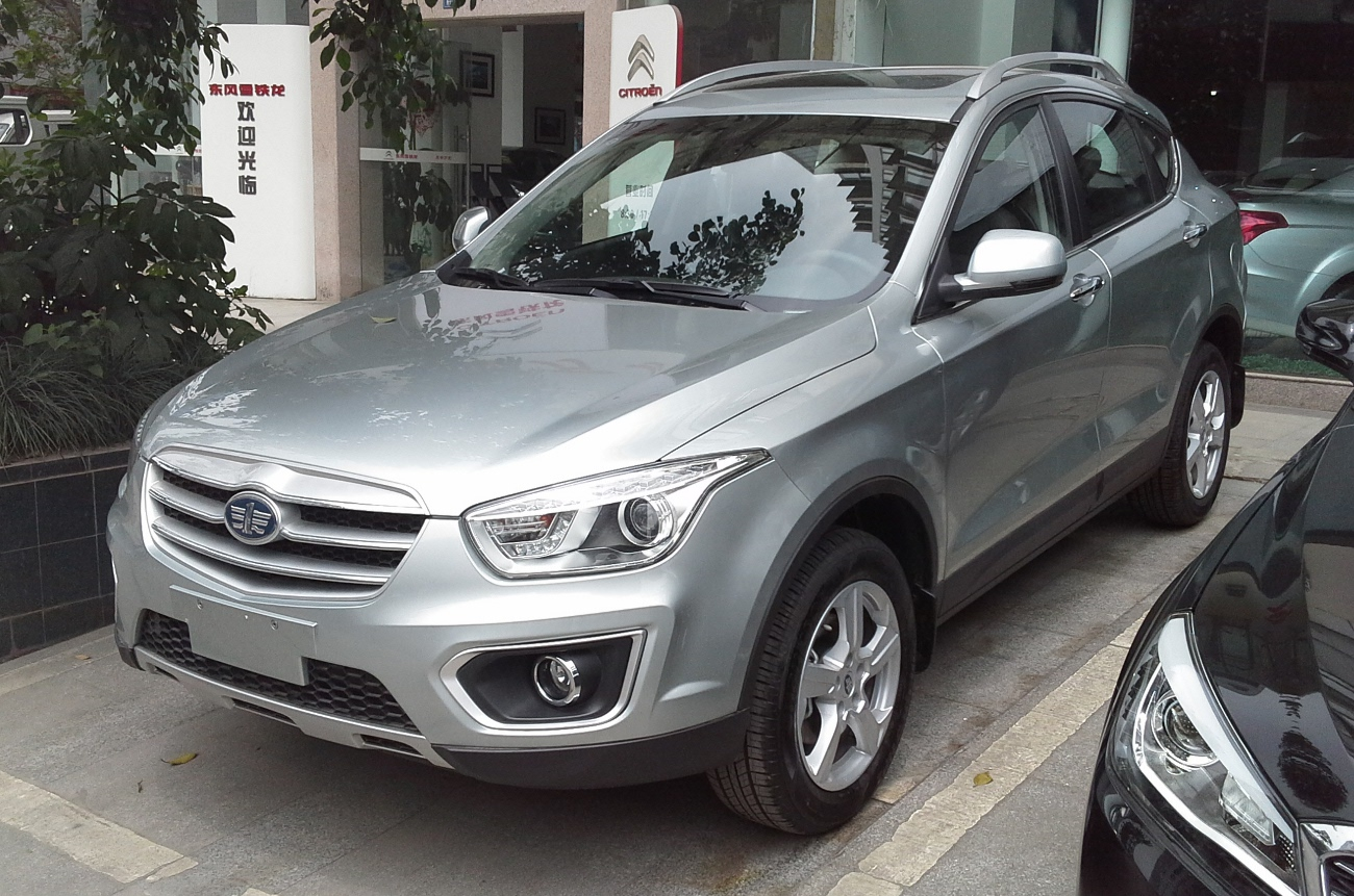 Besturn X80 photographed in Chengdu, Sichuan province, China.